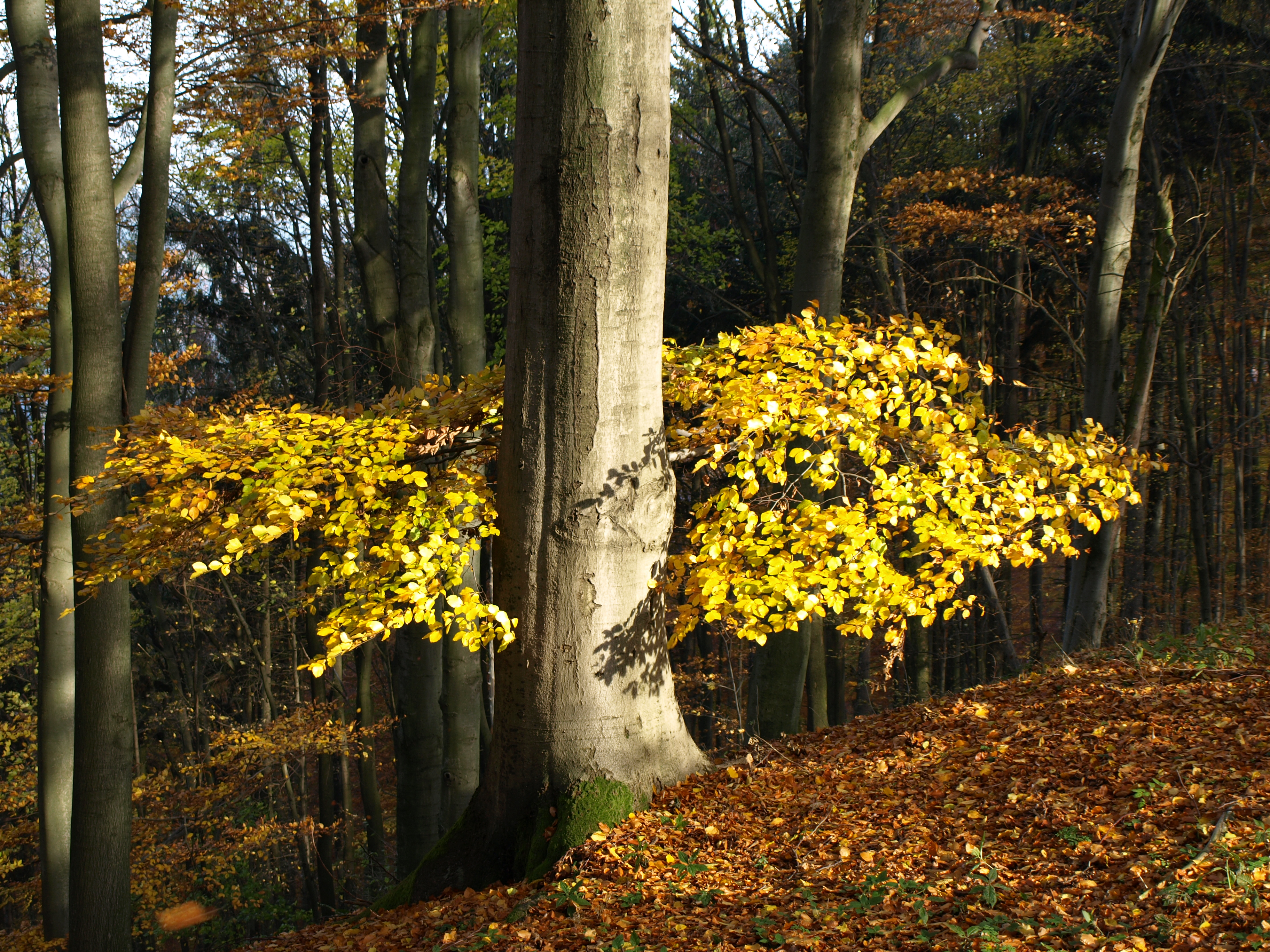 National nature reserve Ve Studeném in Benešov District, Czech Republic